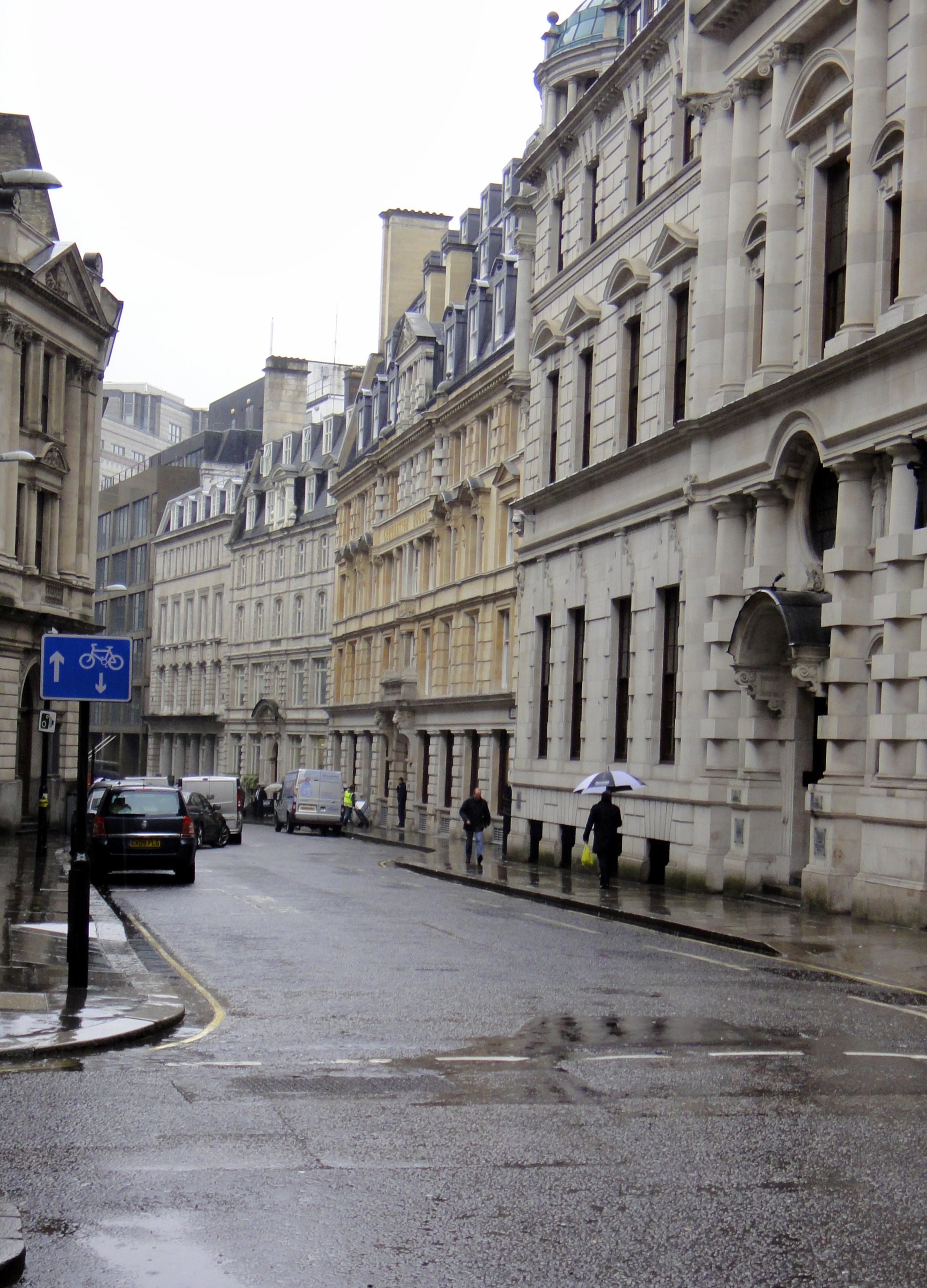 Lloyd's Avenue, City of London, looking south